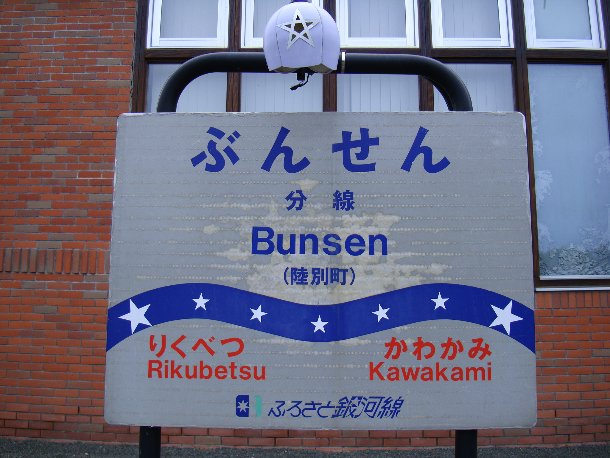 Station signboard of now defunct Hokkaido Chihokukōgen Railway Bunsen Station